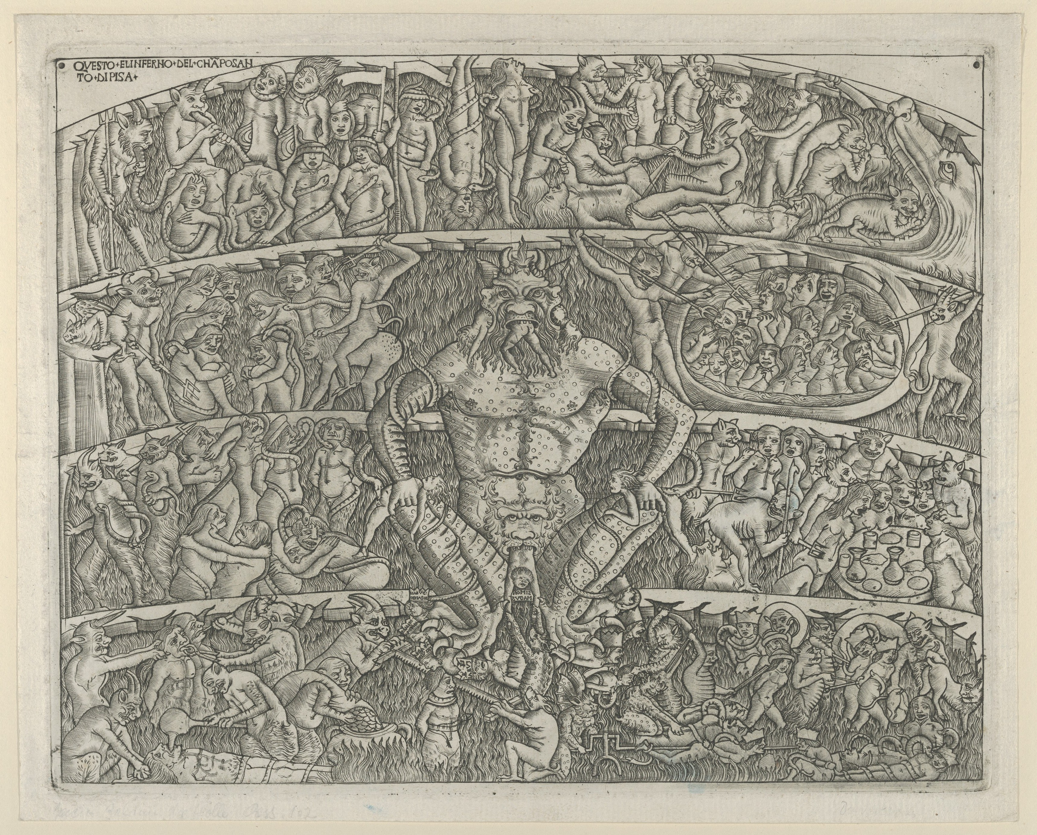 Print; Prints